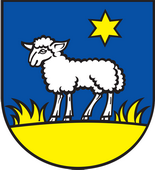 Coat of arms of Trenčianske Teplice, Slovakia